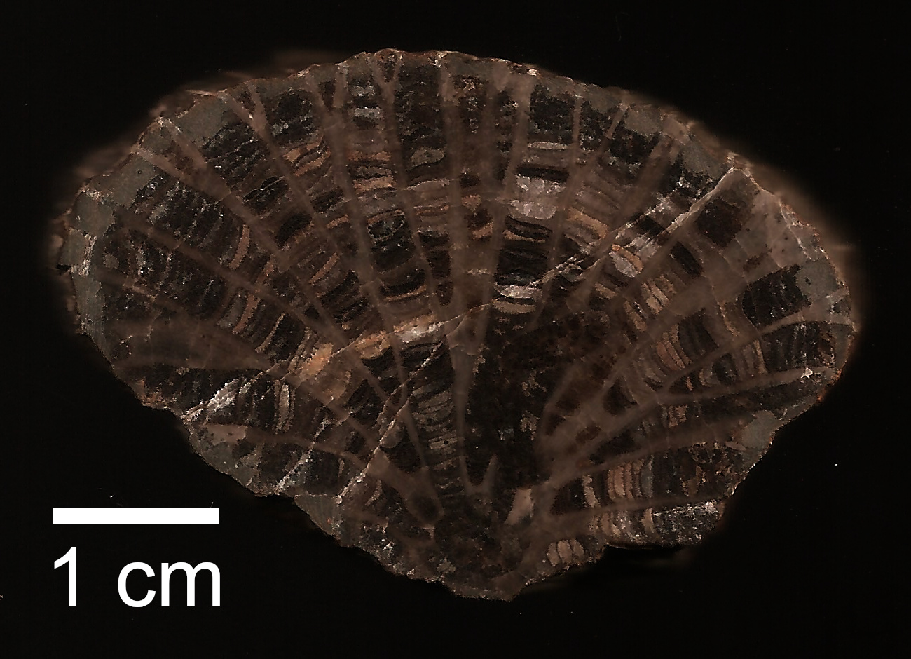 Etched section of a small Ordovician tabulate coral collected in 1993 near Cincinnati, Ohio.